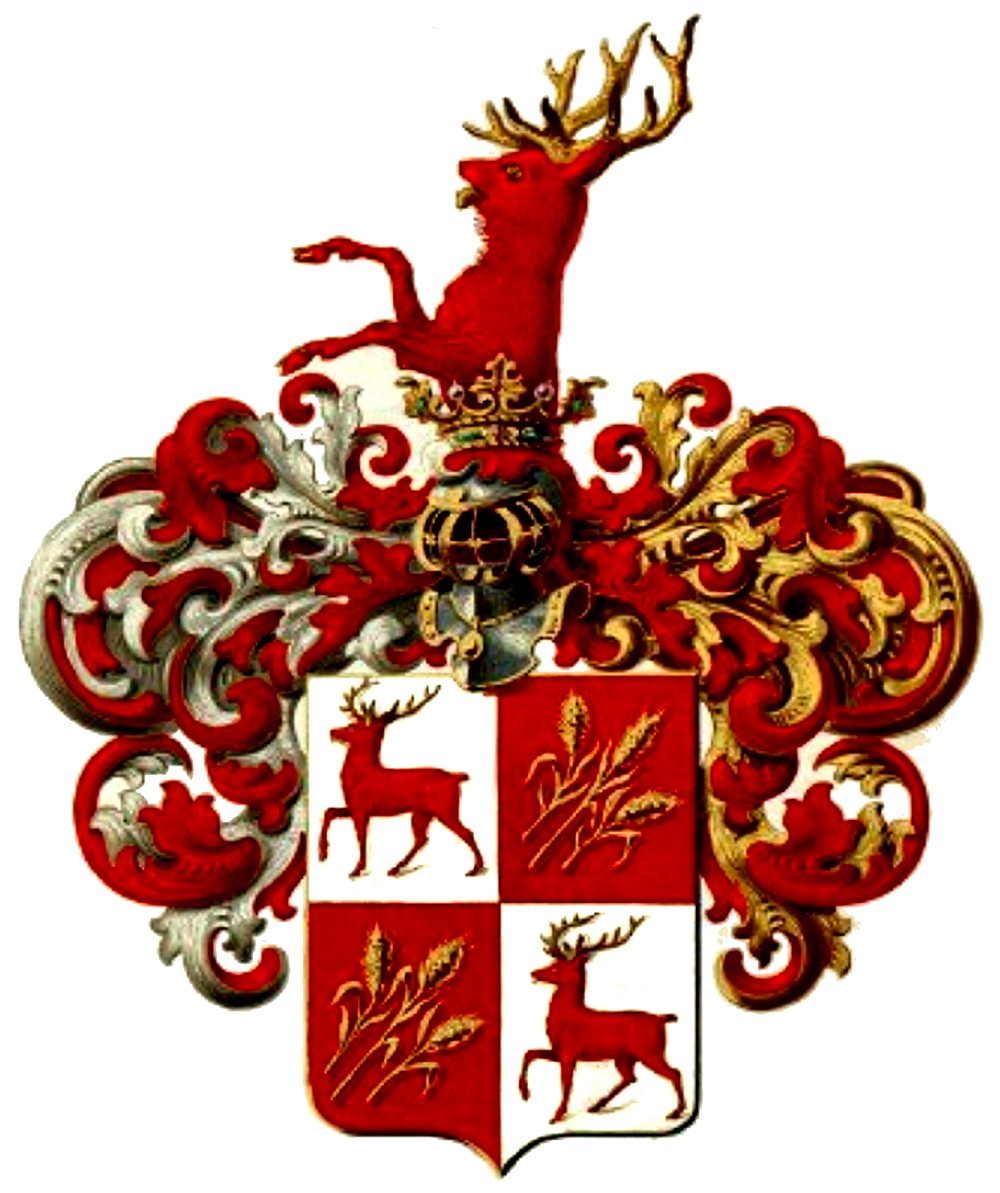 Coat of Arms of Hoerschelmann family